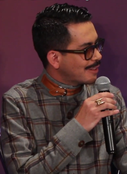 Manolo Caro promotes perfectos desconocidos in 2018